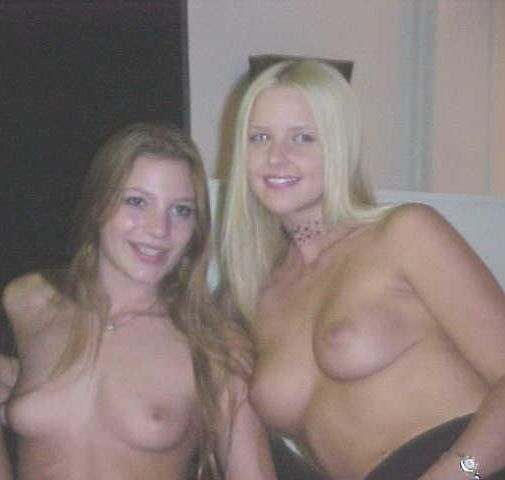 Aurora Snow (left) and Hannah Harper on the Tera Patrick show